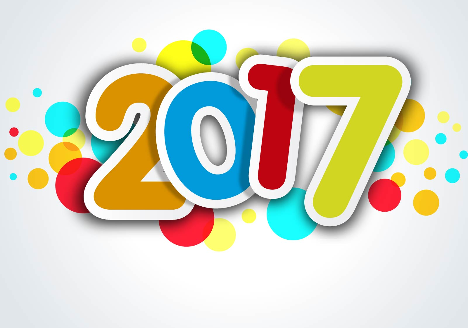 2017 poster design featuring big colorful numbers with sticker-like strokes. Design also features bright dots.